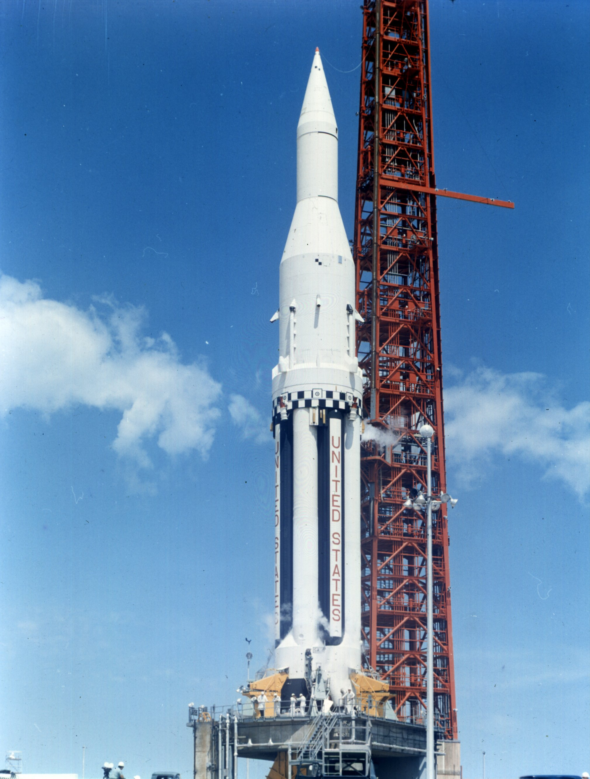 Saturn SA-4 on the pad